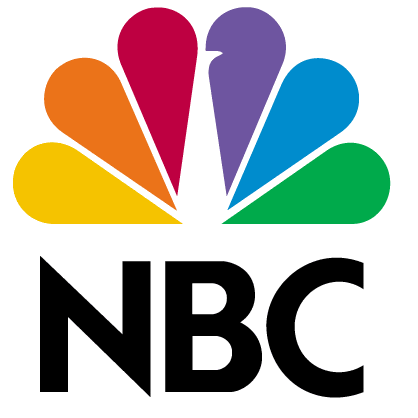 The current logo of the National Broadcasting Company, created by Chermayeff & Geismar. Used since 1986.